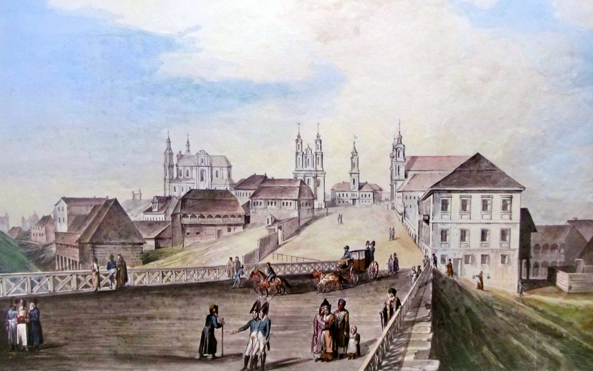 Viciebsk, vulica Vialikaja and plac Rynak